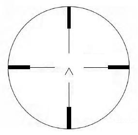 Reticle pattern of the ZF 20E direct fire telescopic sight of the German 8,8 cm Flak 18,36 and 37 antiaircraft guns